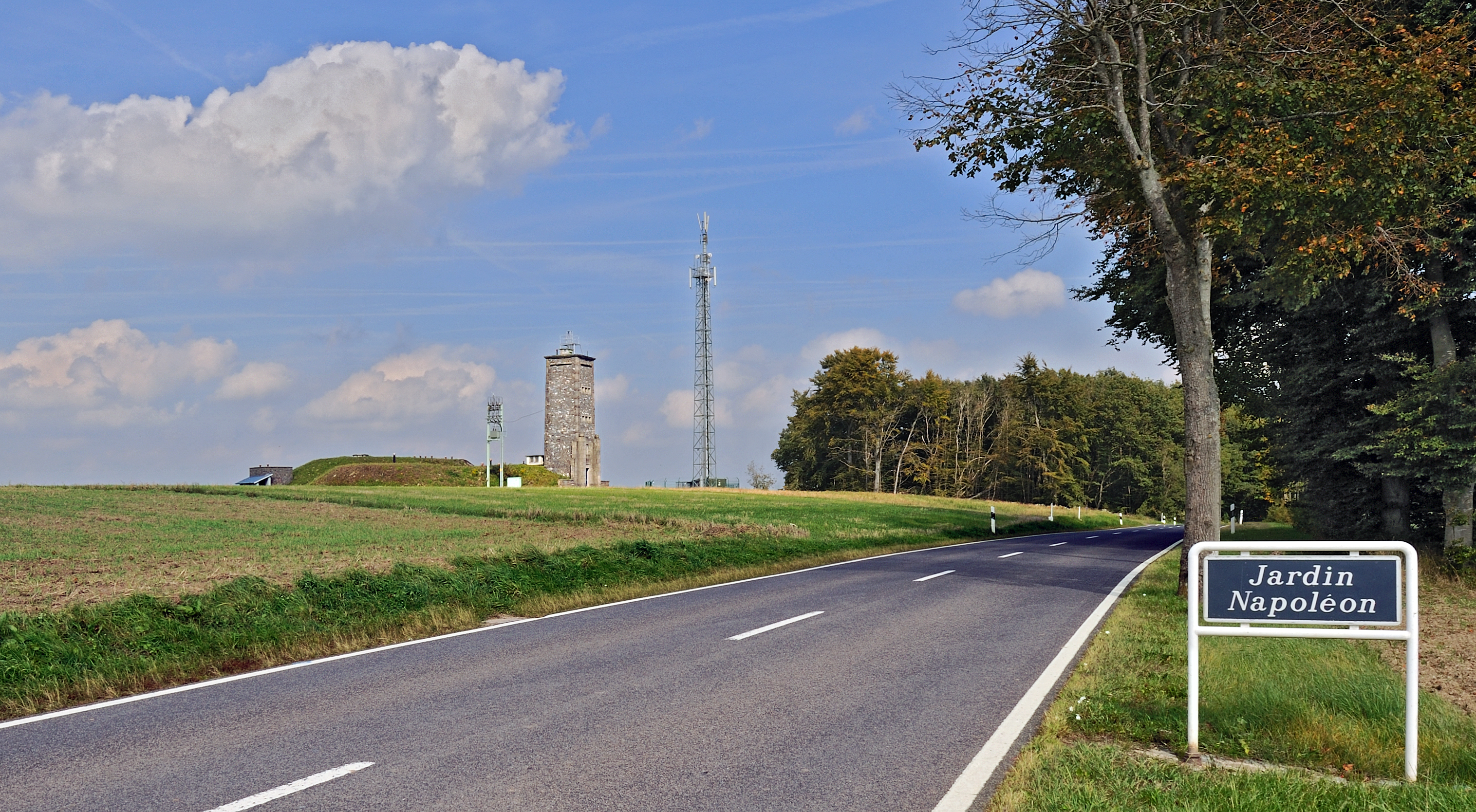 Luxembourg, commune of Rambrouch: Jardin Napoléon (Napoleon's Garden). Altitude: 554 m a.s.l.